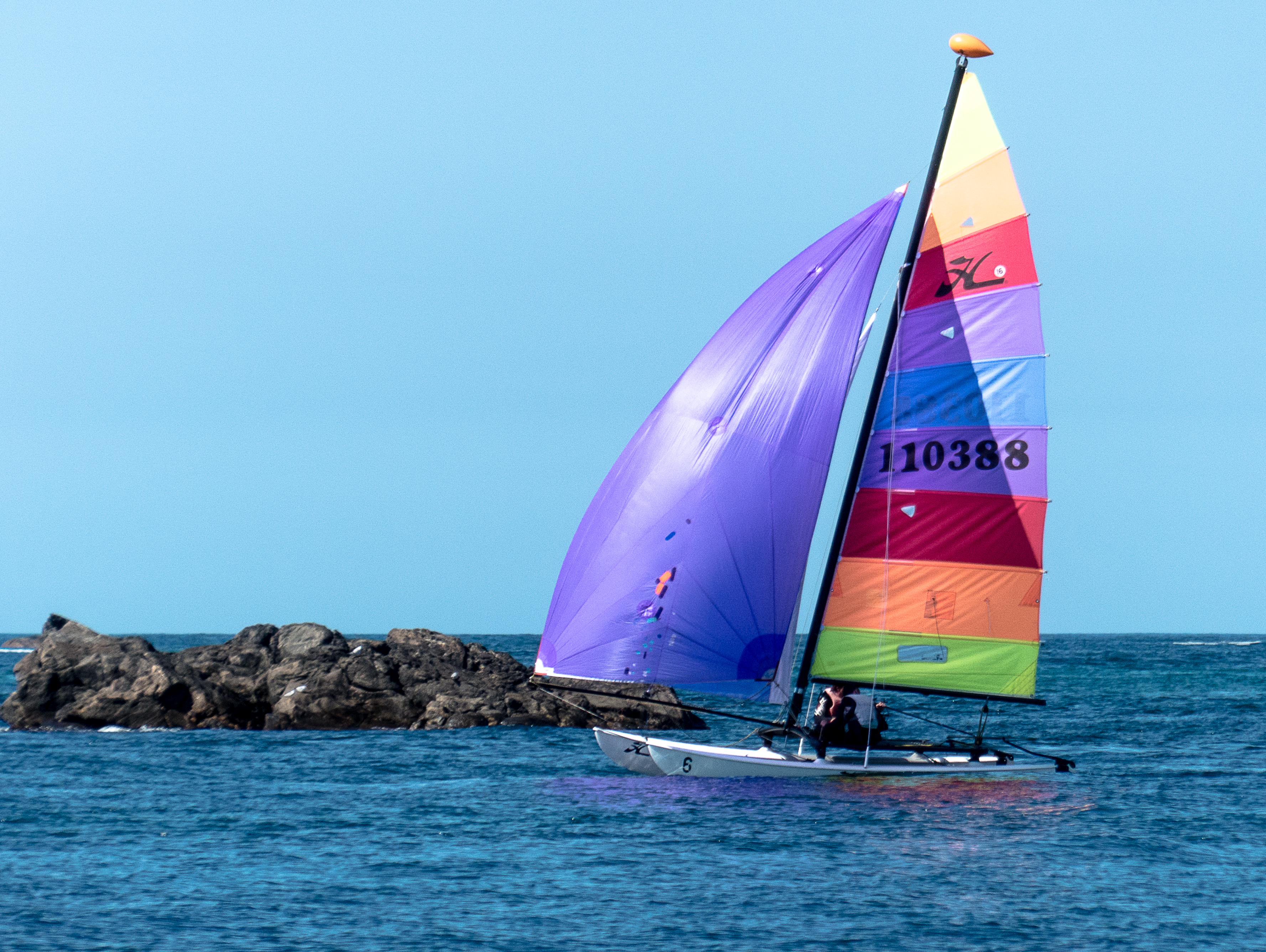 Mini trimaran à l'Aber-Wrac'h Île Vierge lighthouse, Brittany, France.